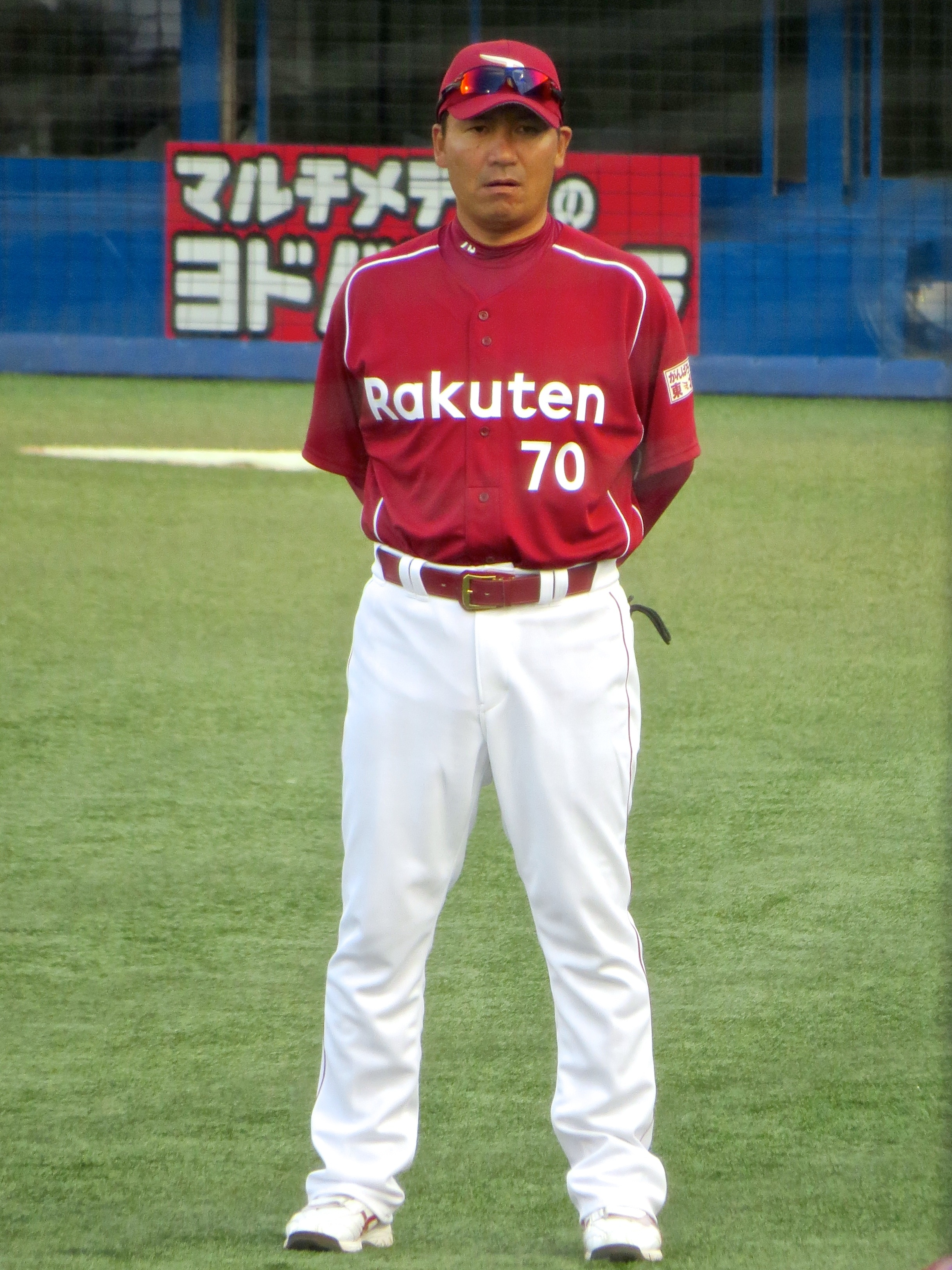 Takashi Miwa, coach of the Tohoku Rakuten Golden Eagles, at Meiji Jingu Stadium.